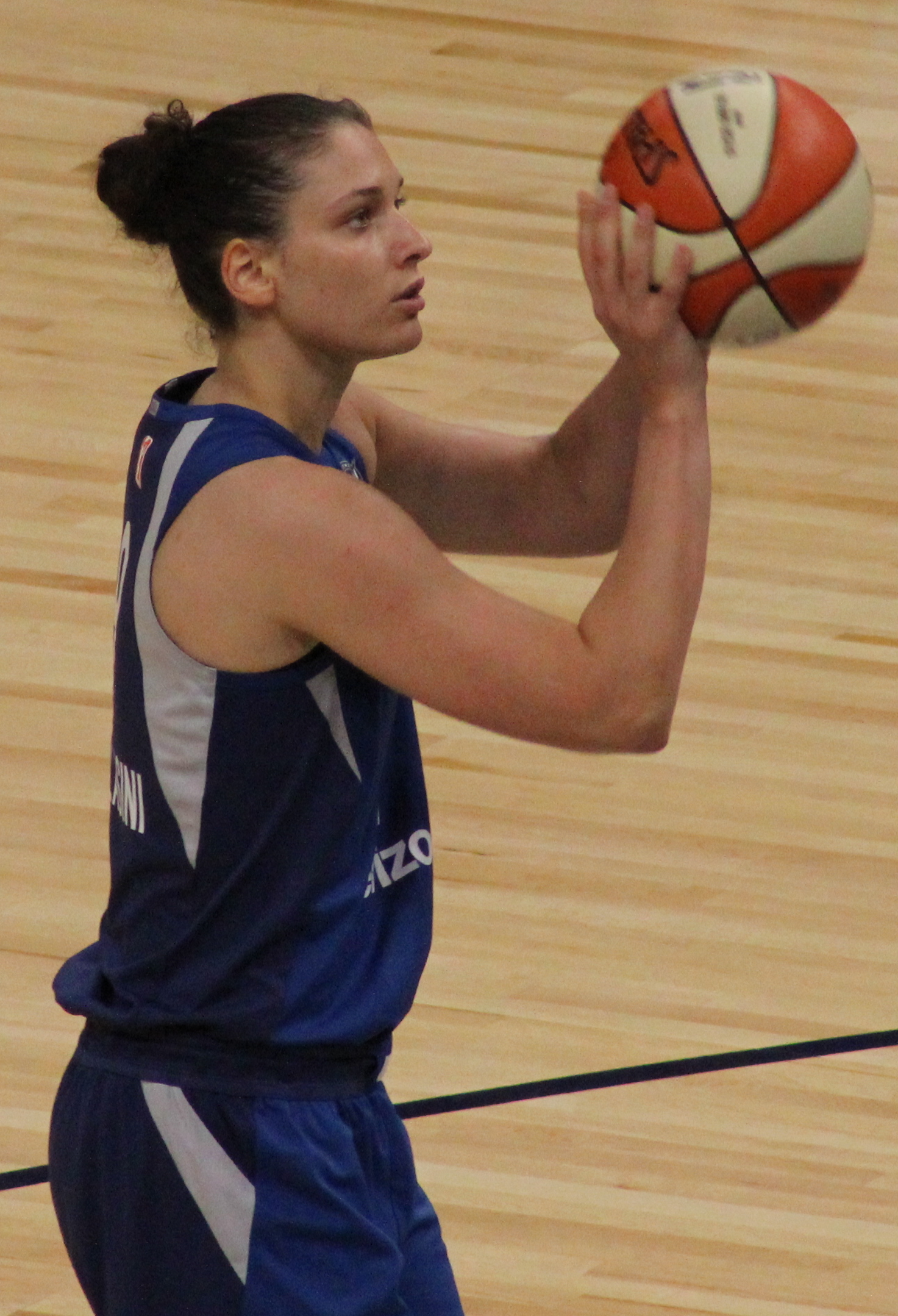 Cecilia Zandalasini of the Minnesota Lynx in 2018